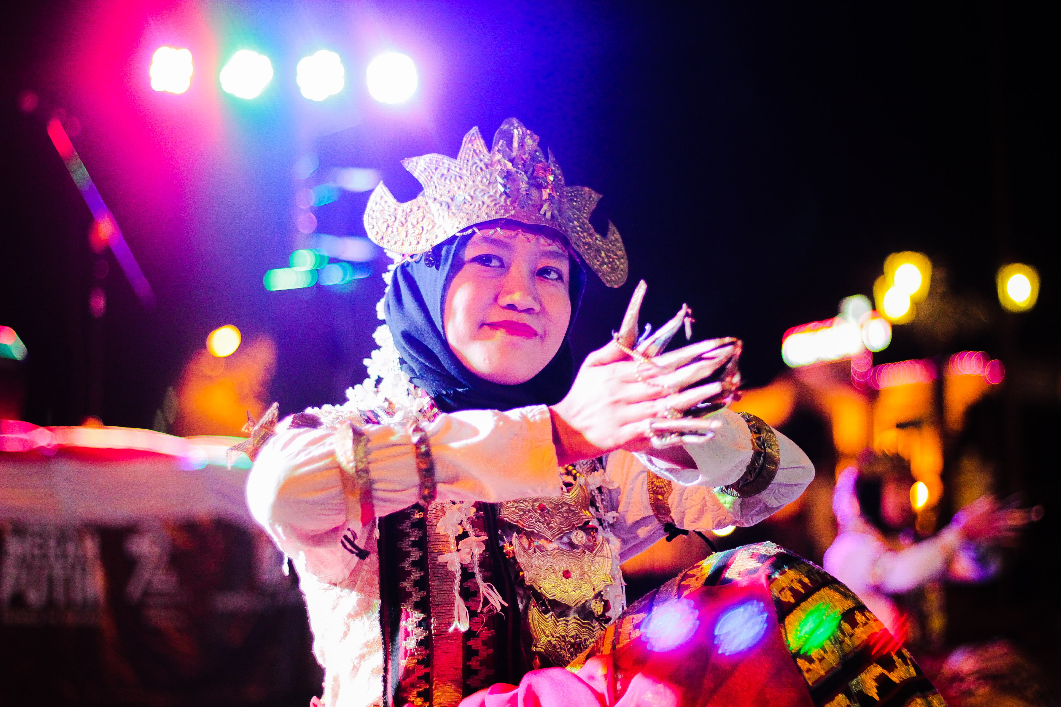 This dance represents the grace and hospitality of South Sumatran People which is why this dance are used to welcome honoured guests. Tanggai comes from the bronze fingernail situated at the fingertips used to imitate the finger and are characteristics of the dance. This photo has been taken in the country: Indonesia